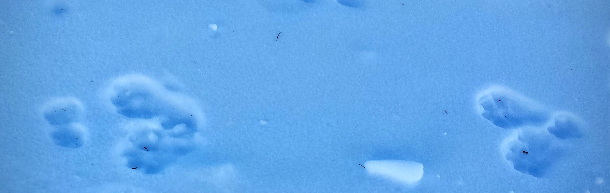 Snowshoe Hare (Lepus americanus) tracks Seen while snowshoeing at Hurricane Ridge, Olympic National Park on the last day of 2015. IMG_20151231_125612